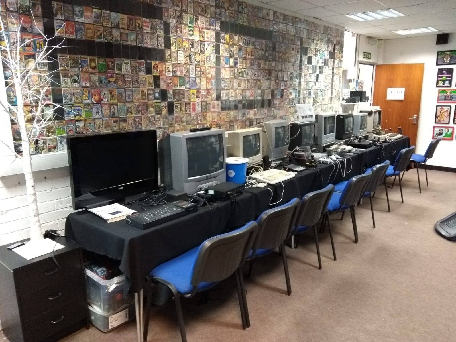 Retro Computer Museum (Leicester) Interior